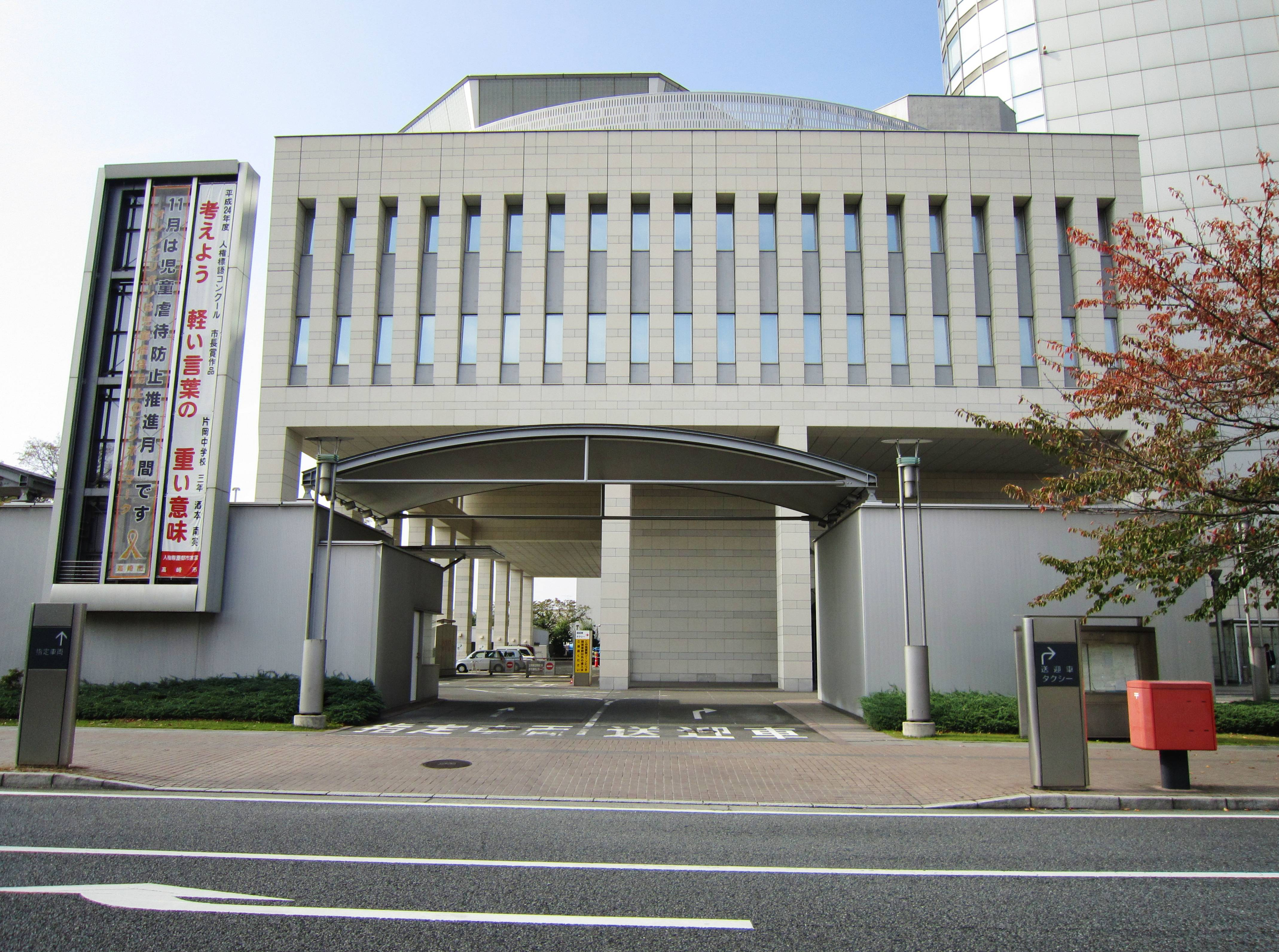 Takasaki city council.